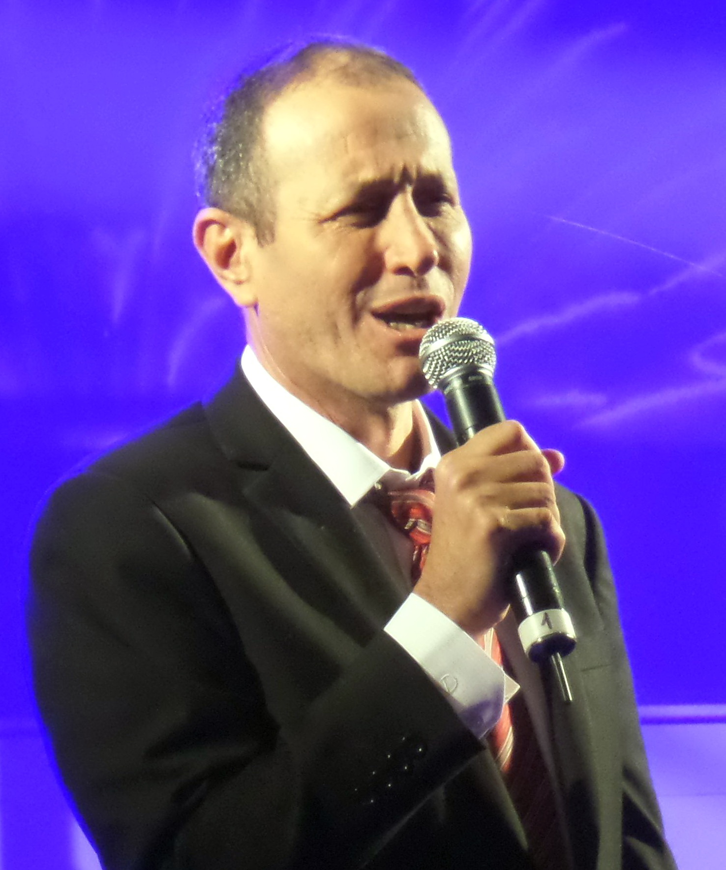 Shimon Lankri, hosting Independence day event in Akko, 2014